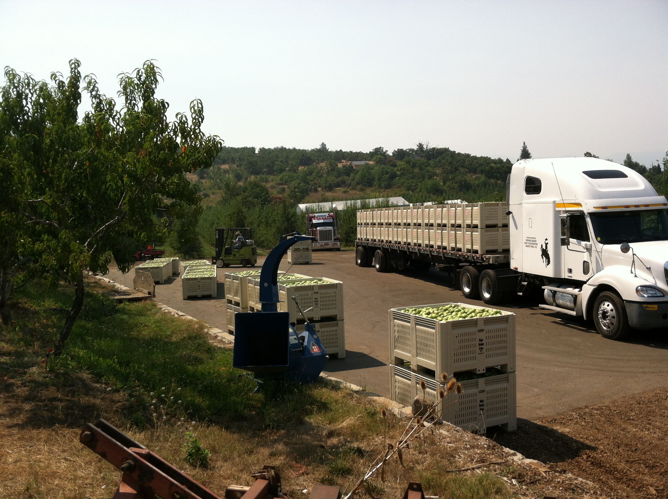 Loading dock at Medford Pear Farm LDS Bishop Store House.